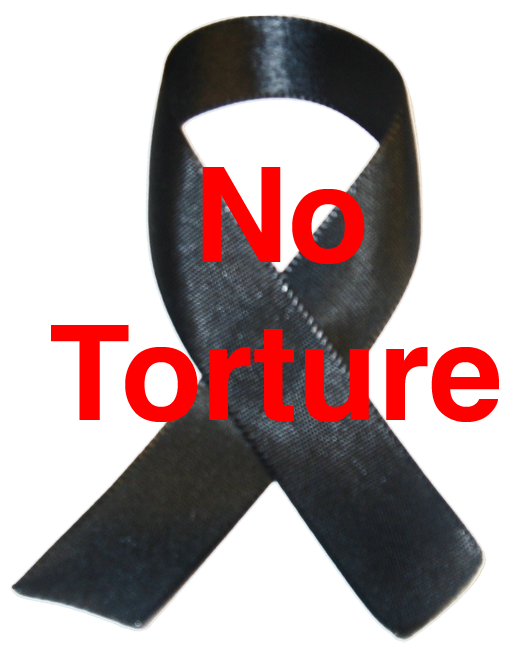 Black ribbon campaign logo for ; photograph and modifications copyright Tyler Riddle. No rights reserved.